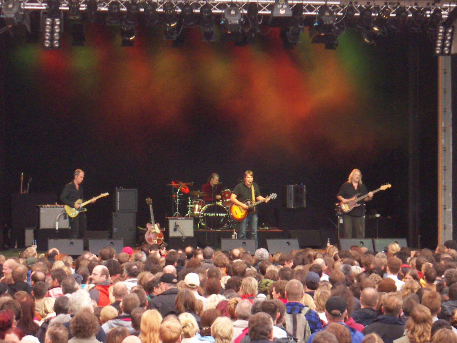 Element of Crime (german band) in concert (Jena)